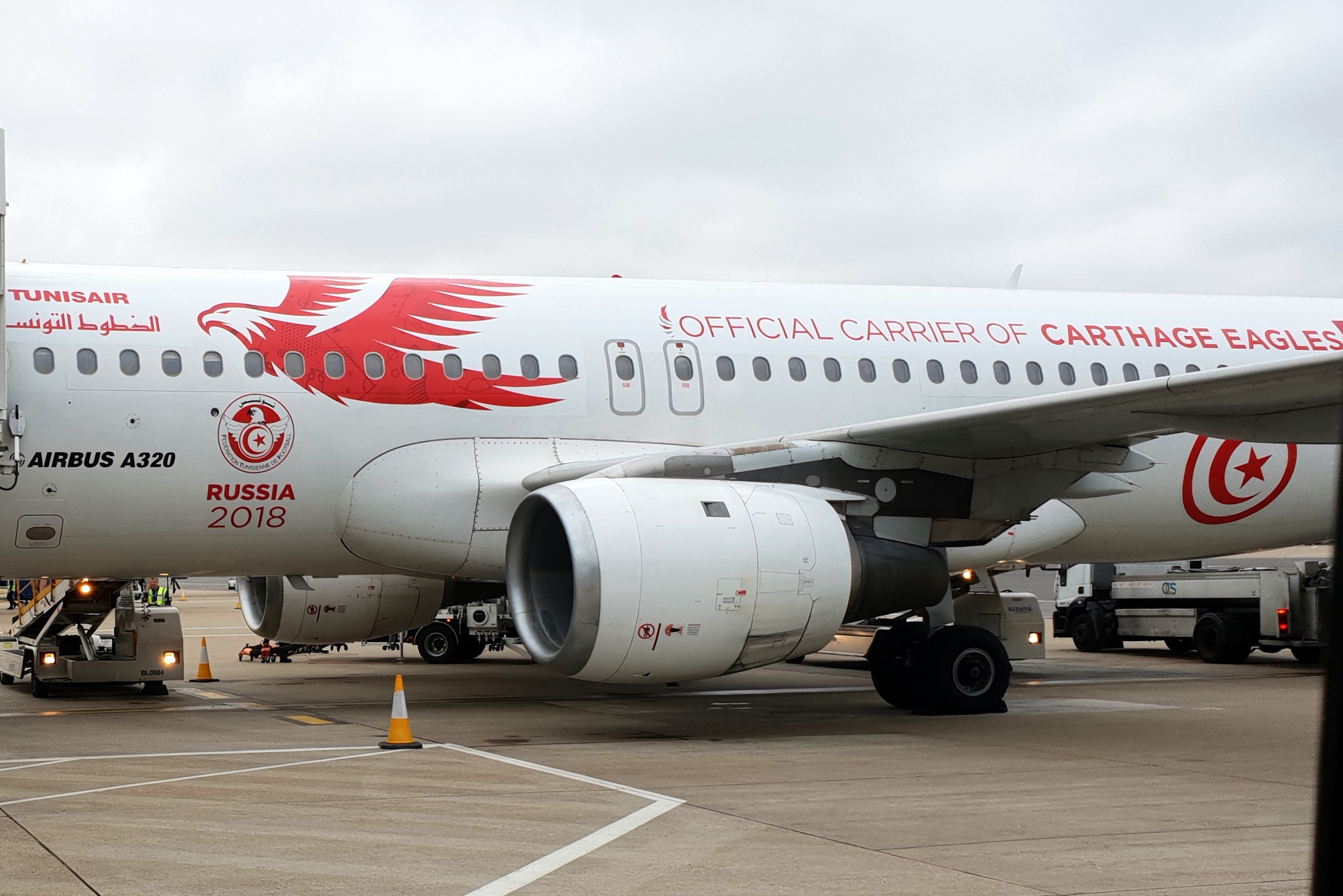 TS-IMP 17062018LHR